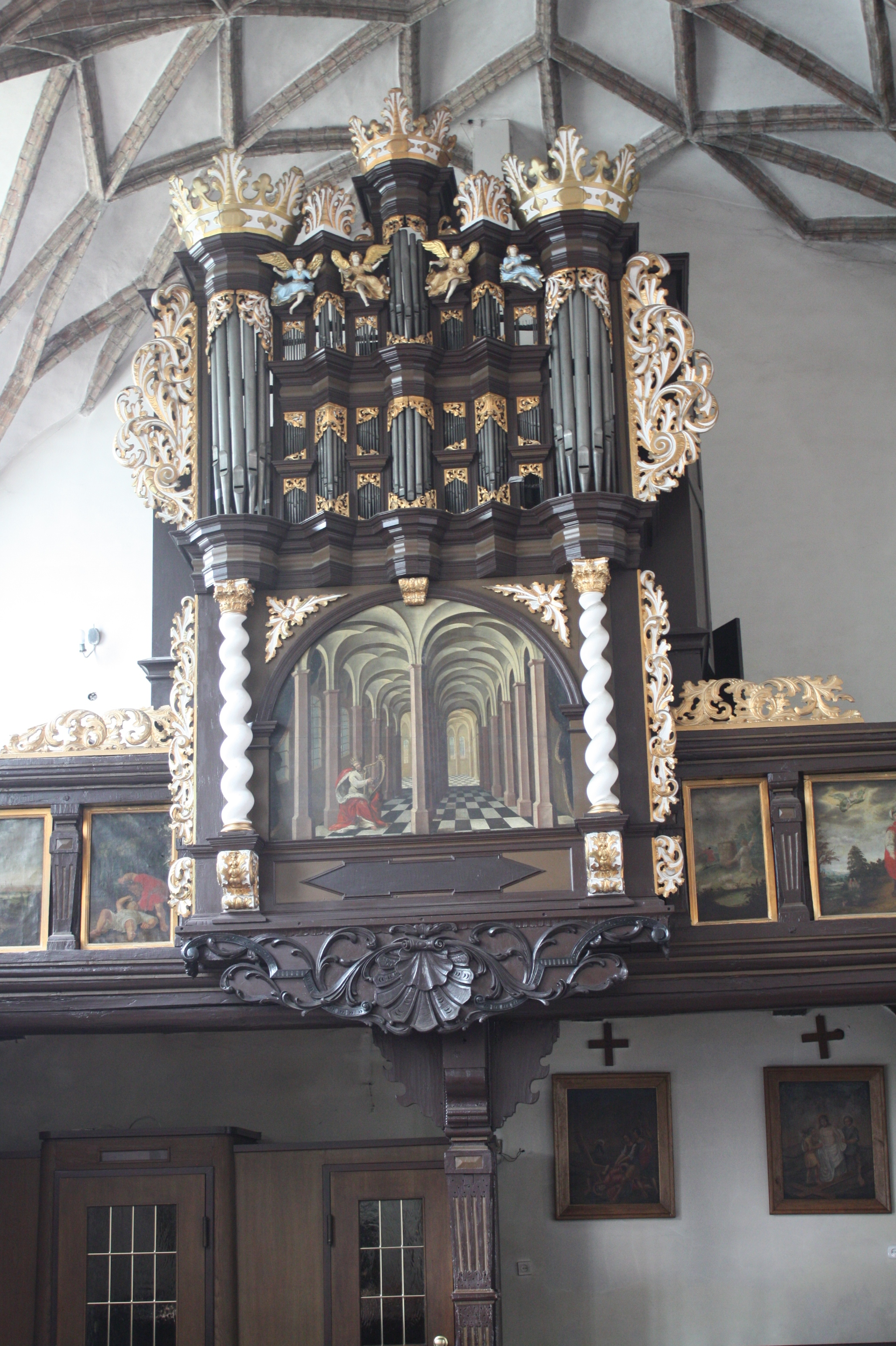 Gdańsk, Church of Saint Trinity